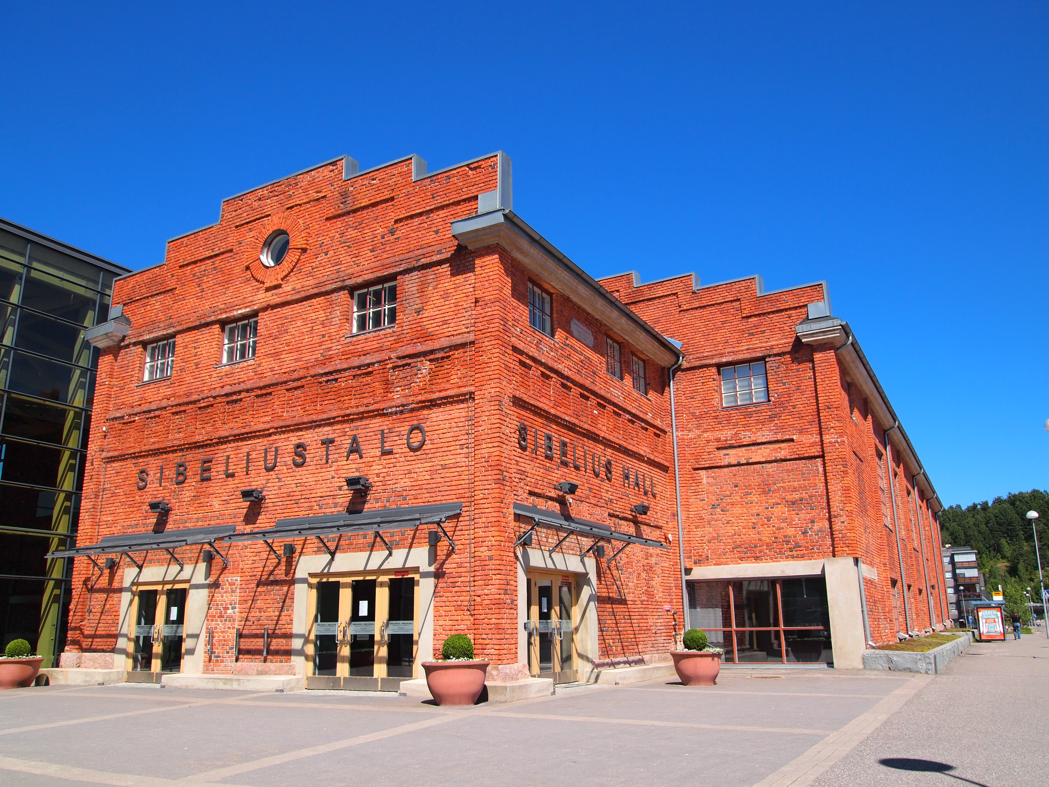 Sibelius hall, Lahti. This photograph was taken with an Olympus E-PL1